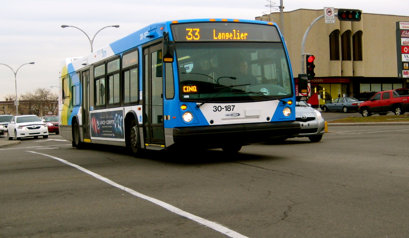 An STM (Société de transport de Montréal) Novabus LFS on route 33.